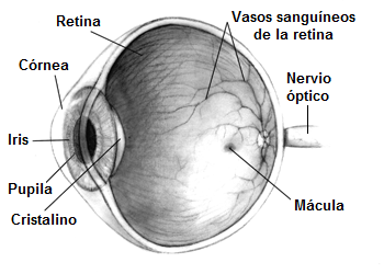 Modificado de: Human_eye.jpg (14KB, MIME type: image/jpeg) (Wikipedia commons) Human eye cross-sectional view grayscale Copyright: public domain, credit to NIH National Eye Institute requested. Original